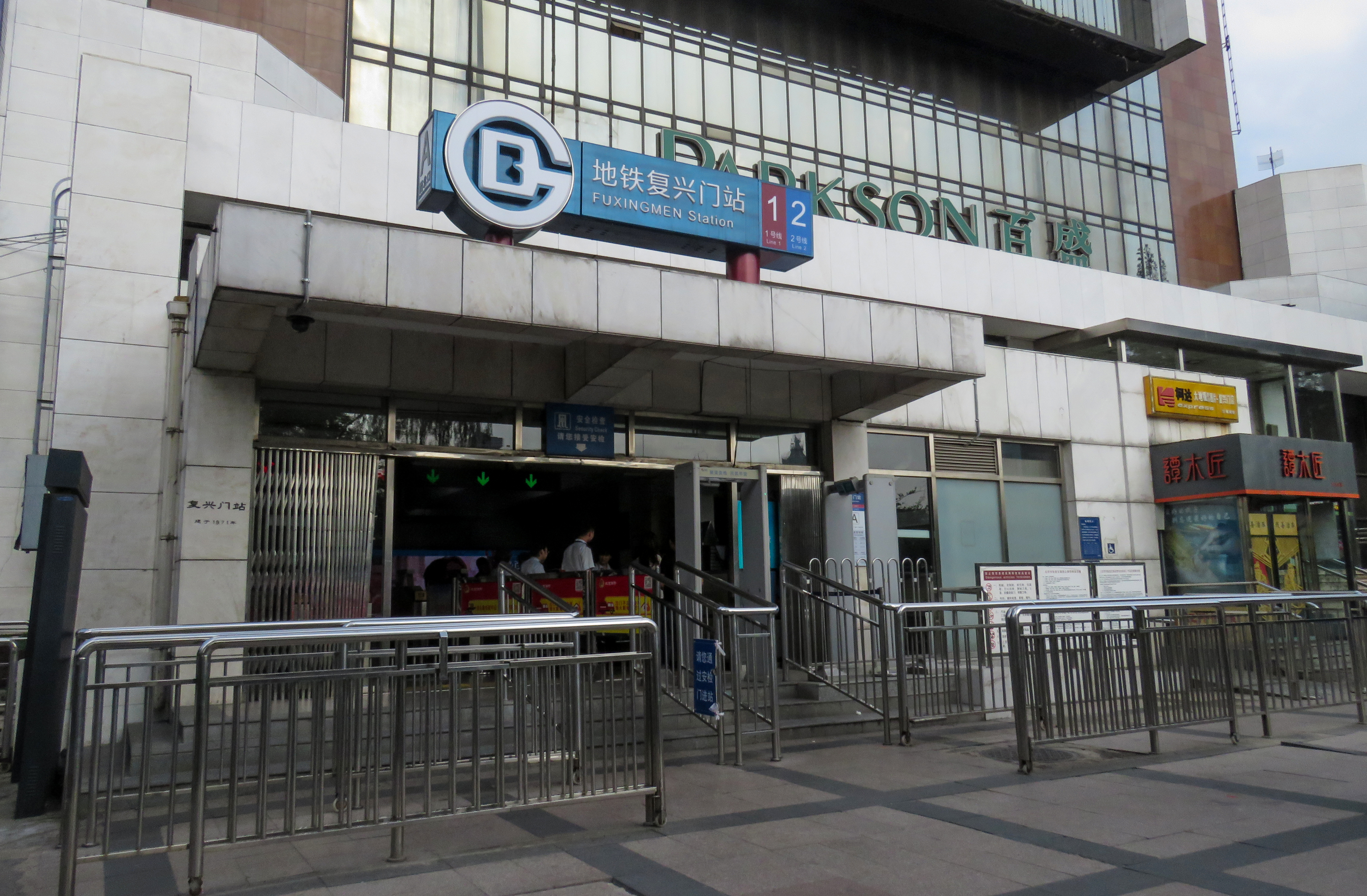 At the west of Parkson.